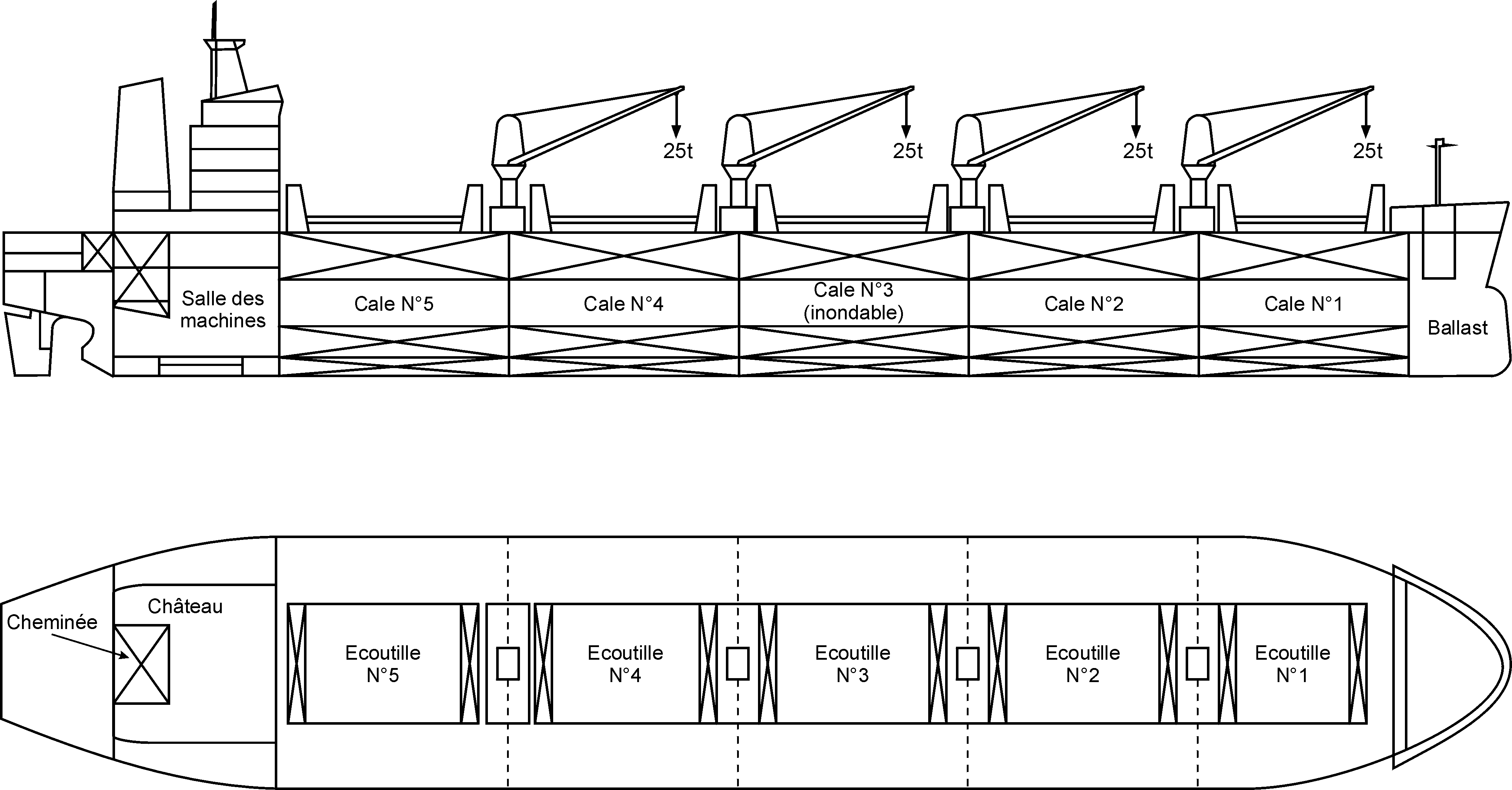 General arrangement of a Panamax geared bulk carrier.